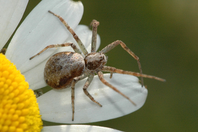 female Philodromus dispar from Commanster, Belgian High Ardennes .